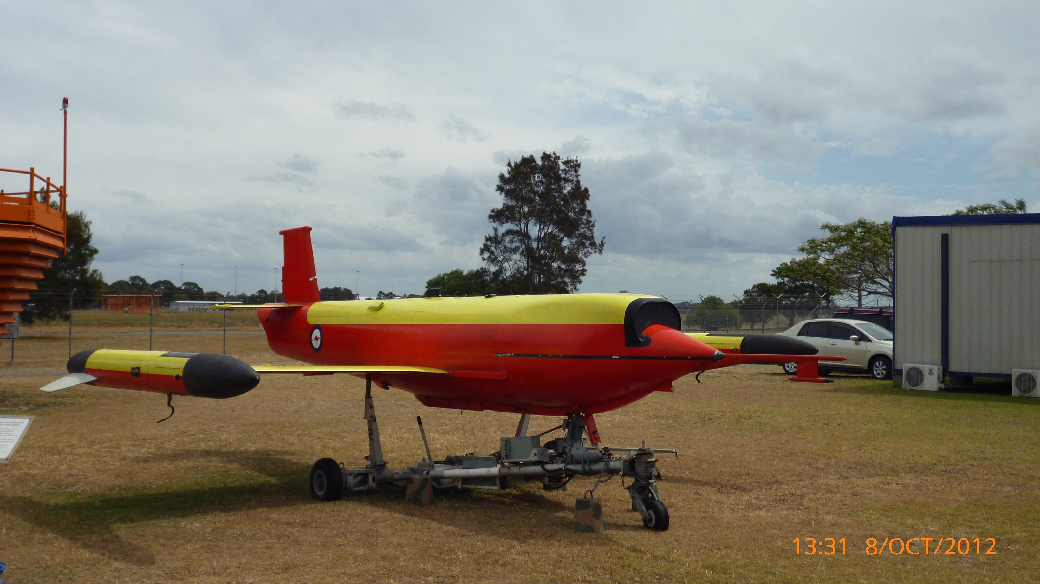 GAF Jindivik at Fighter World museum in Williamtown New South Wales, Australia.